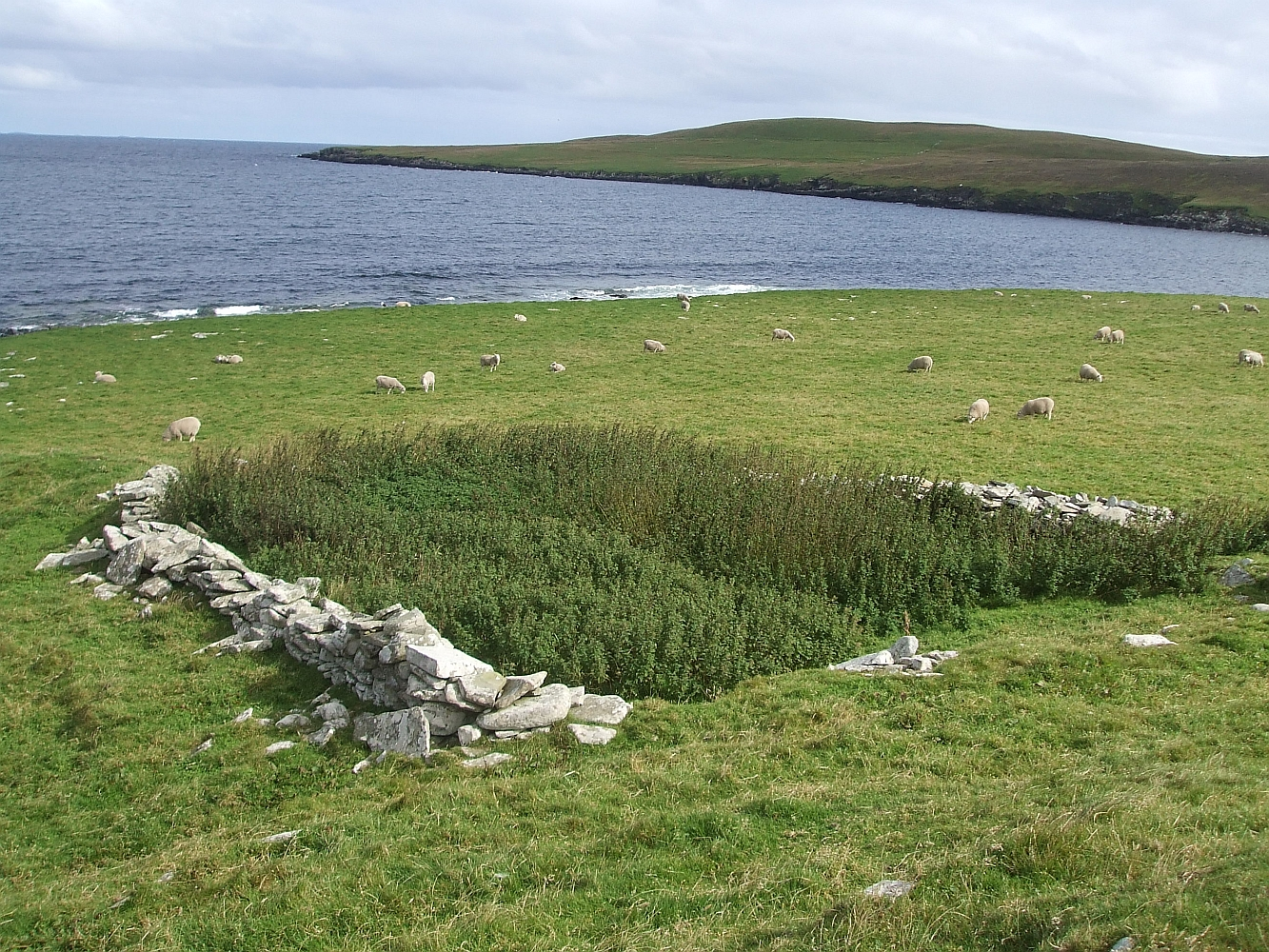 Traces of an ancient broch, Cullingsburgh